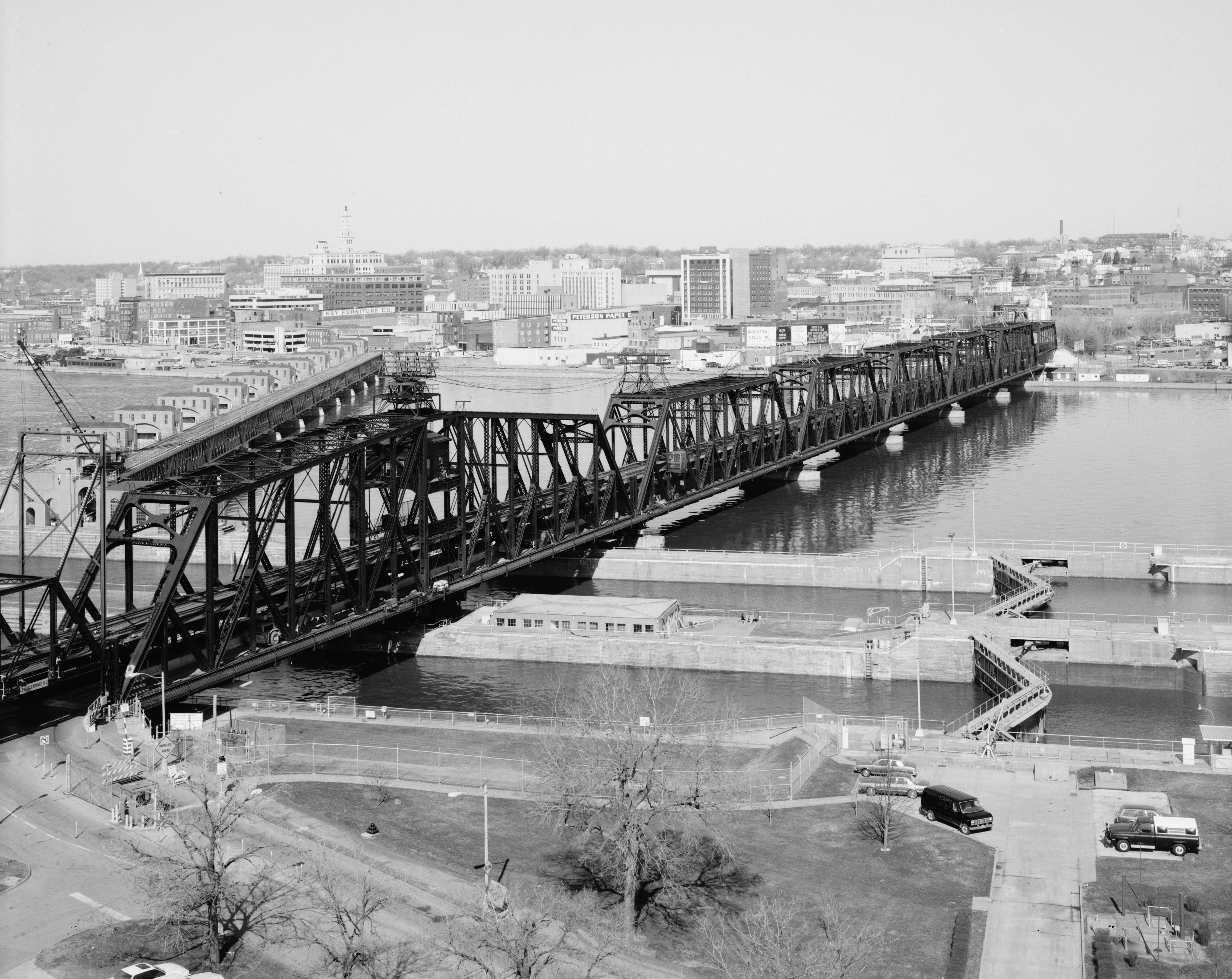 3/4 overall view of Government Bridge, the Rock Island Bridge over Mississippi River from the Clock Tower Building (Building 205); looking NNW toward Davenport, Iowa.